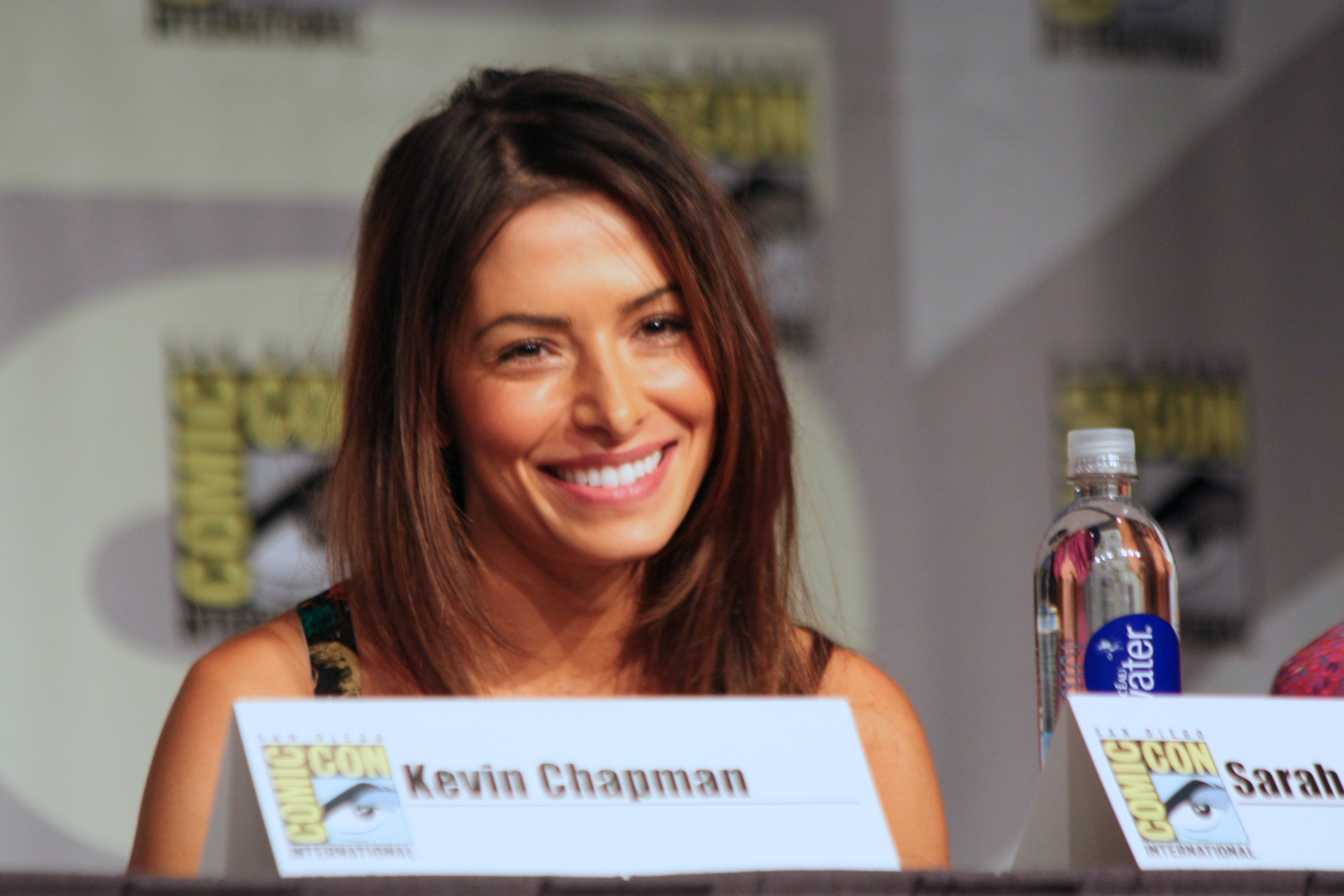 Sarah Shahi (Sameen) Person of Interest Panel at the 2014 San Diego Comic Con